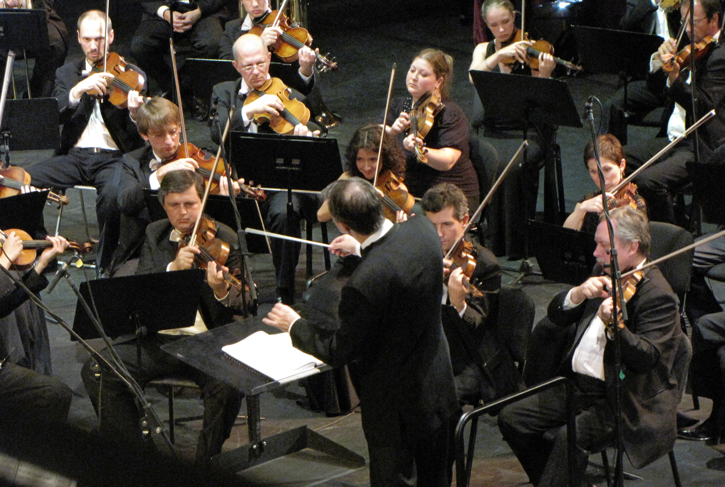 Mikhail Pletnyov and Russian National Orchesrtra